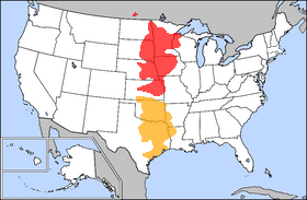 Map showing the range of the Prairie Skink.